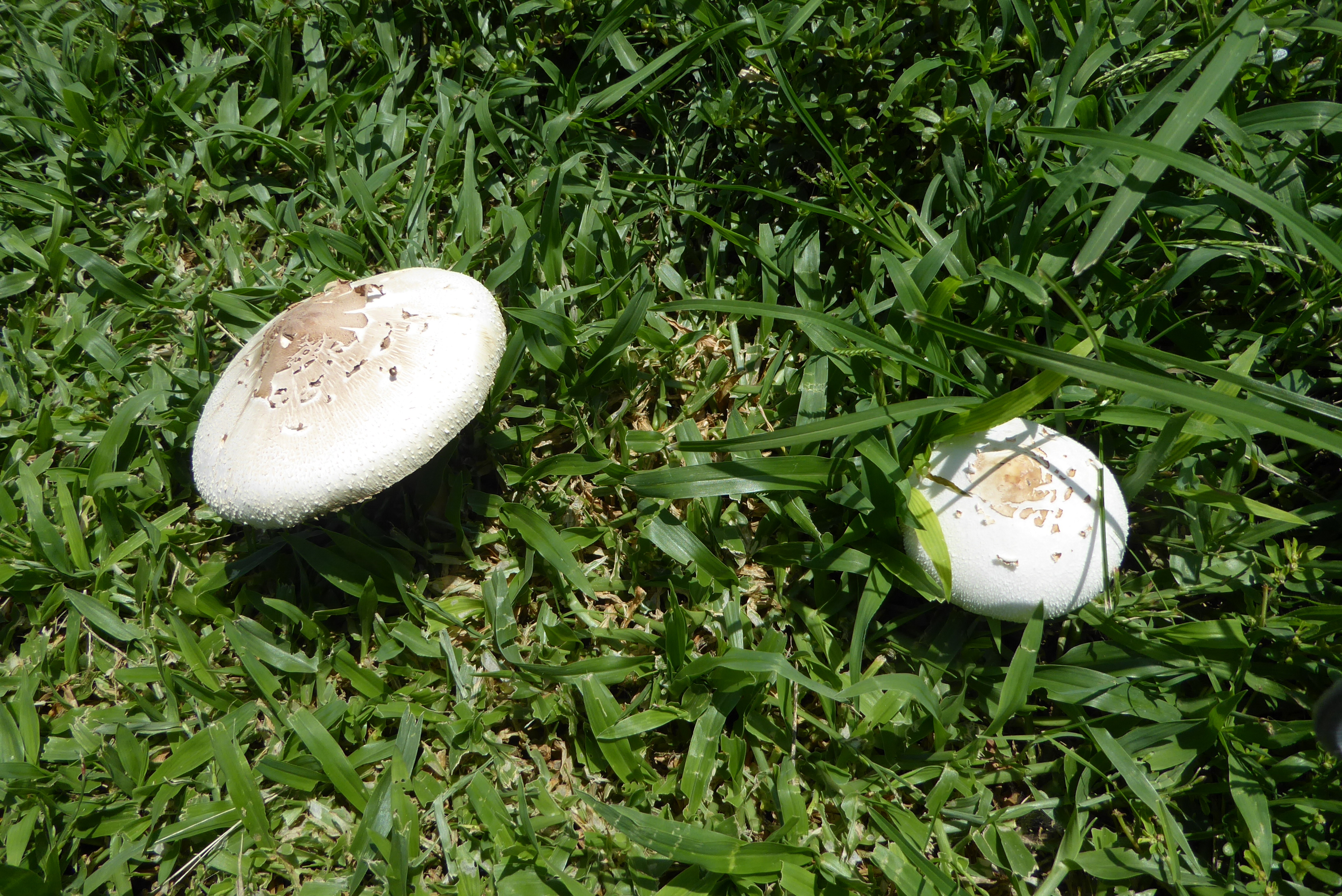 Edith Wolfson Park